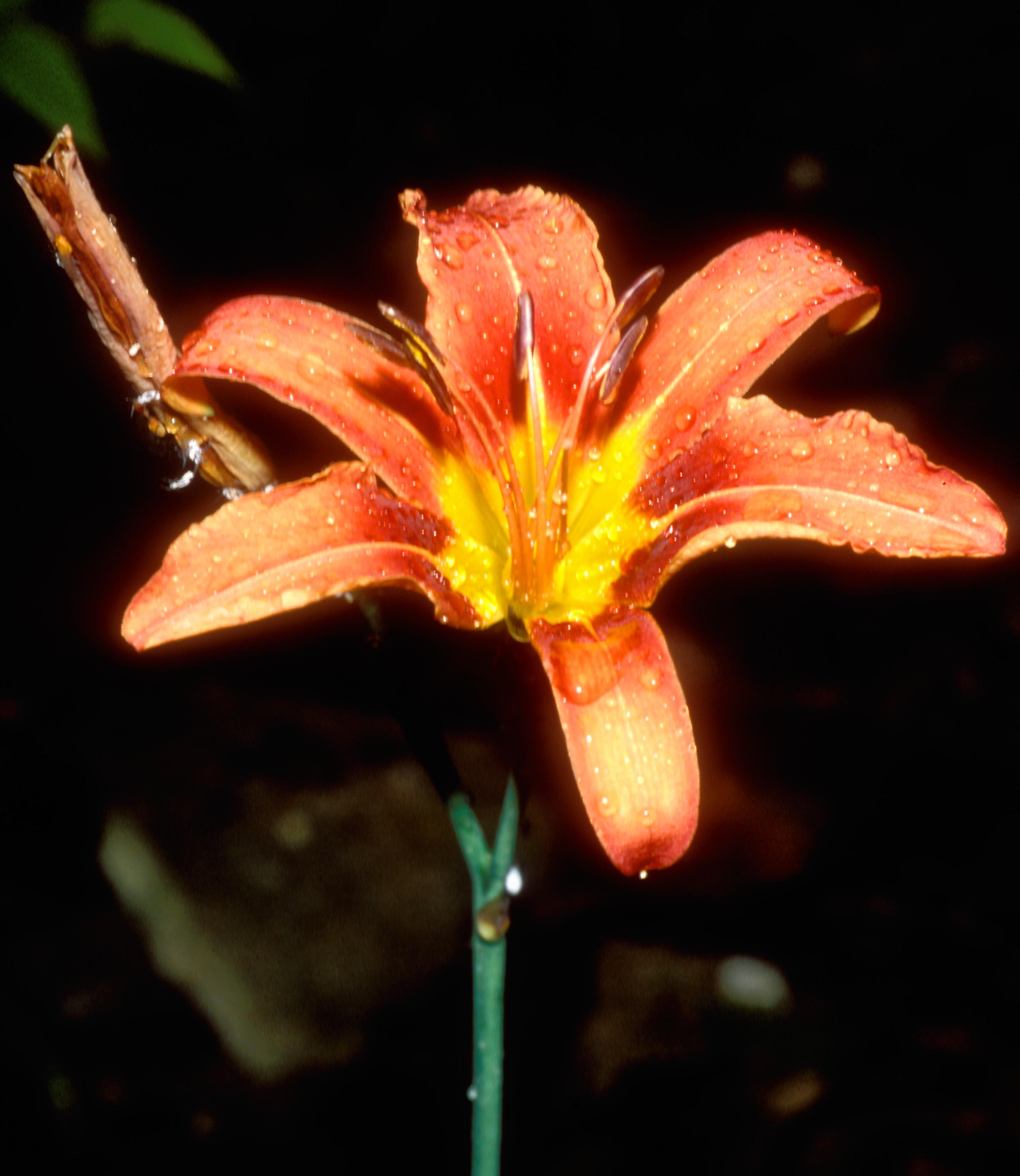 Hemerocallis fulva in habitat, Pingwu, Sichuan, China